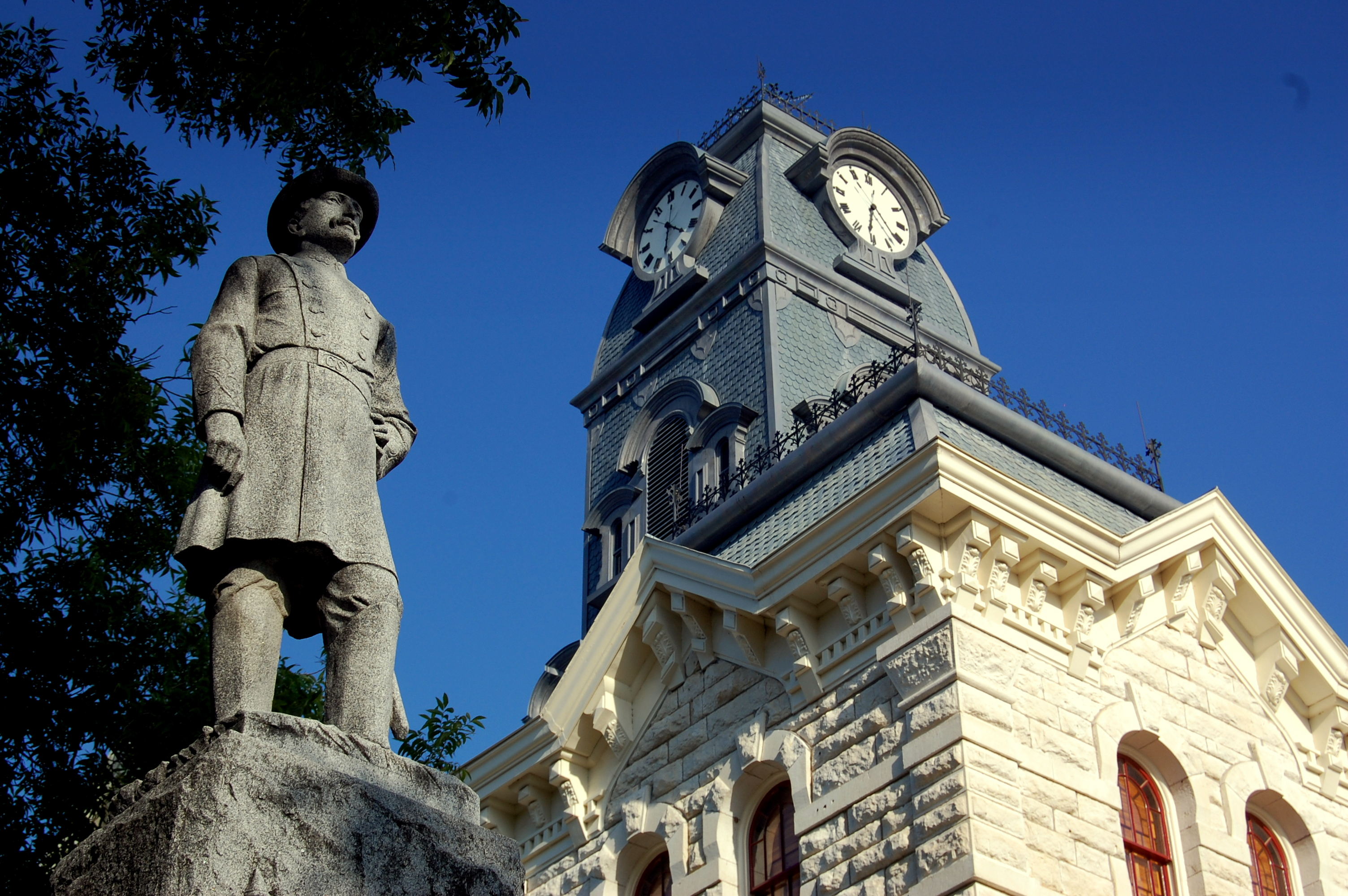 Statue of General Granbury with Hood County Courthouse in background